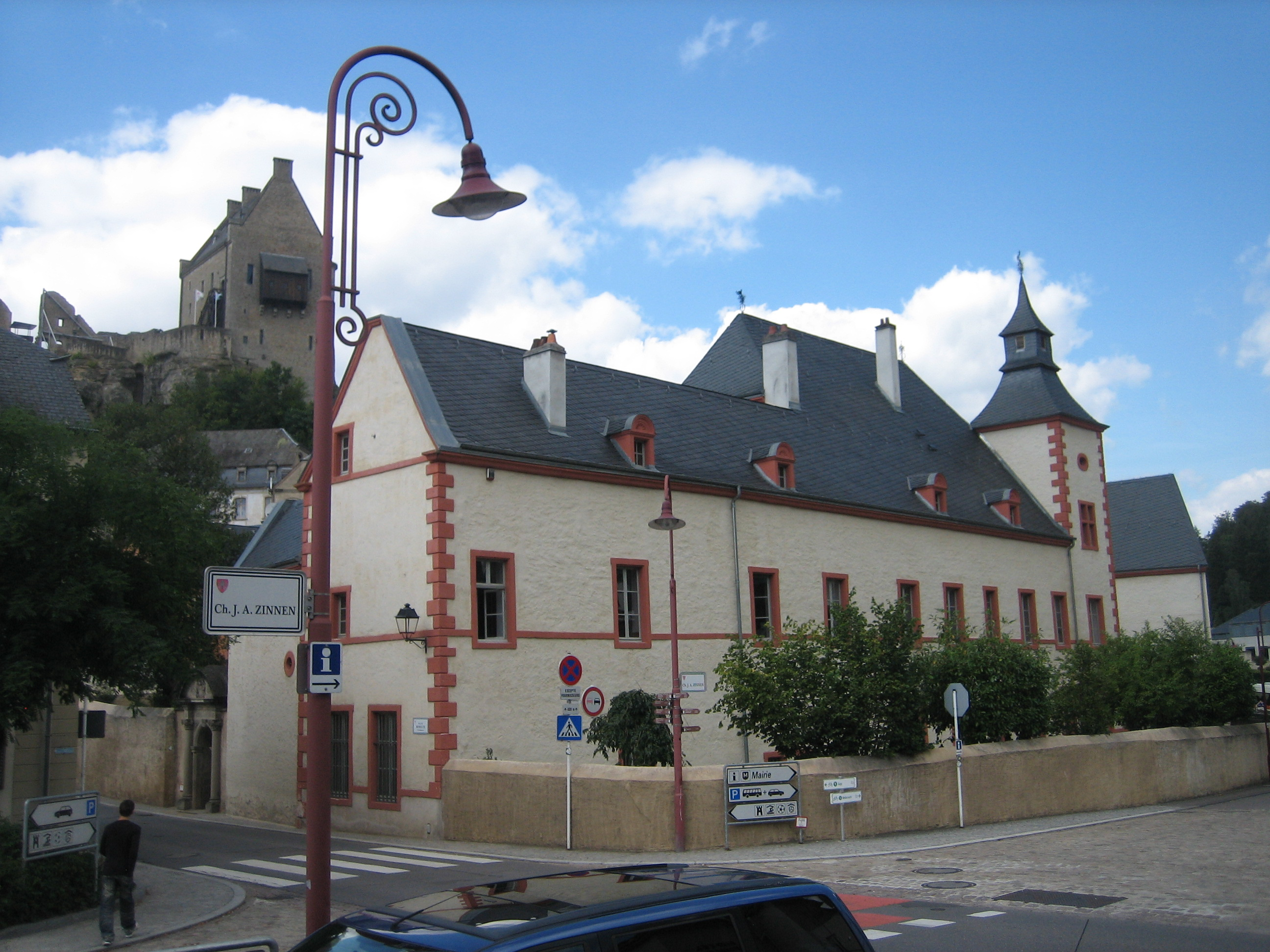 2 rue de Mersch, Larochette, Luxembourg: Cultural heritage monument (Inventaire supplémentaire) since 17 january 1987.